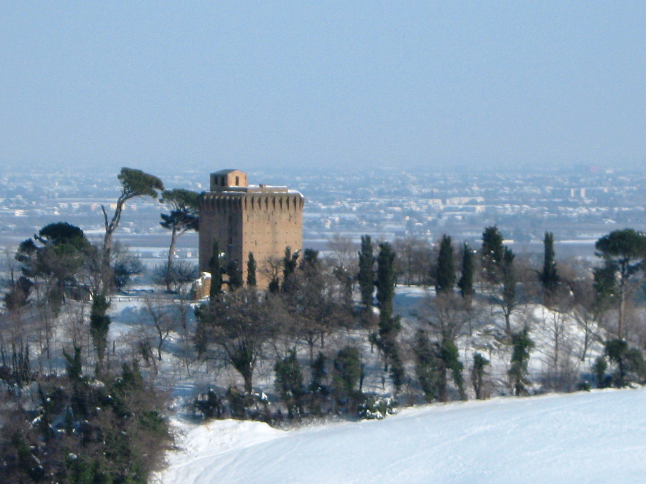 A view of the medieval Tower in Oriolo dei Fichi (Faenza). Italy